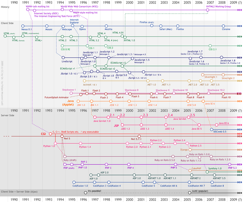 Web development history diagram